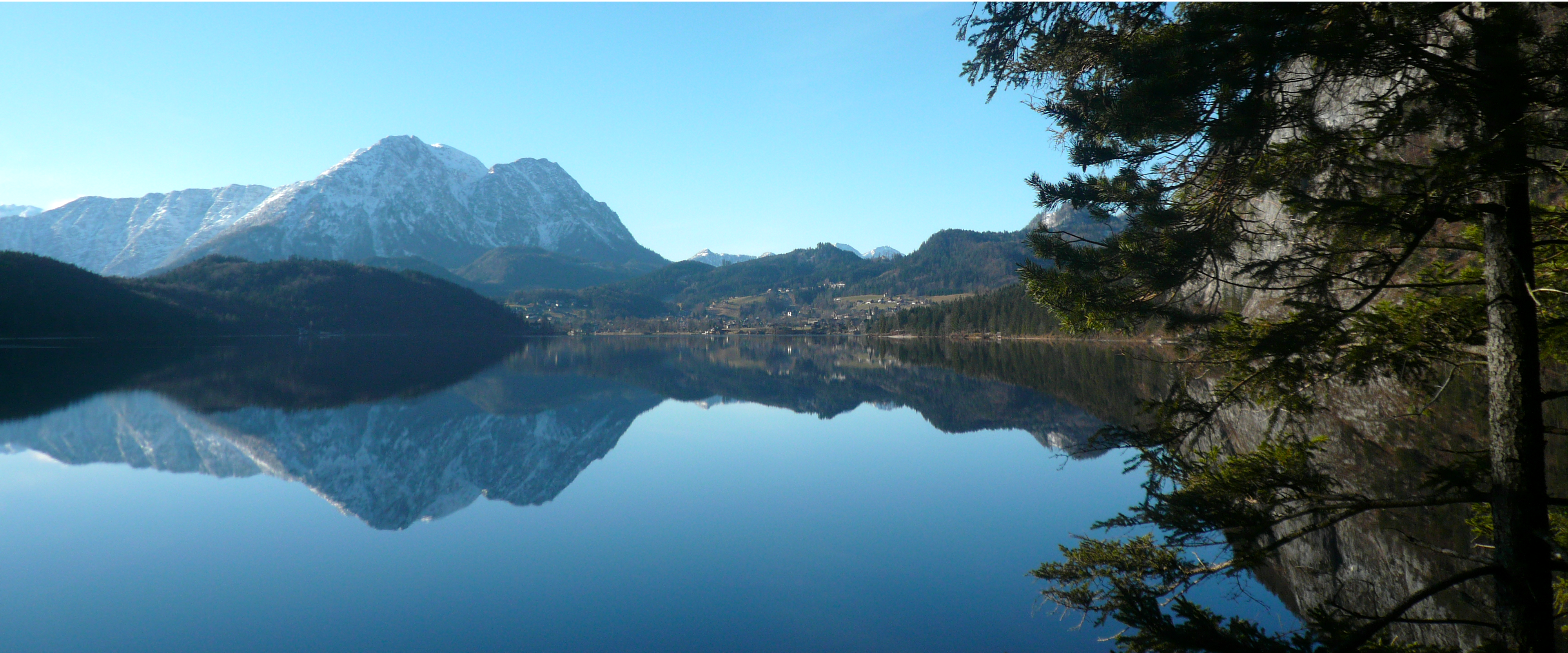 Altausseer See & Sarstein